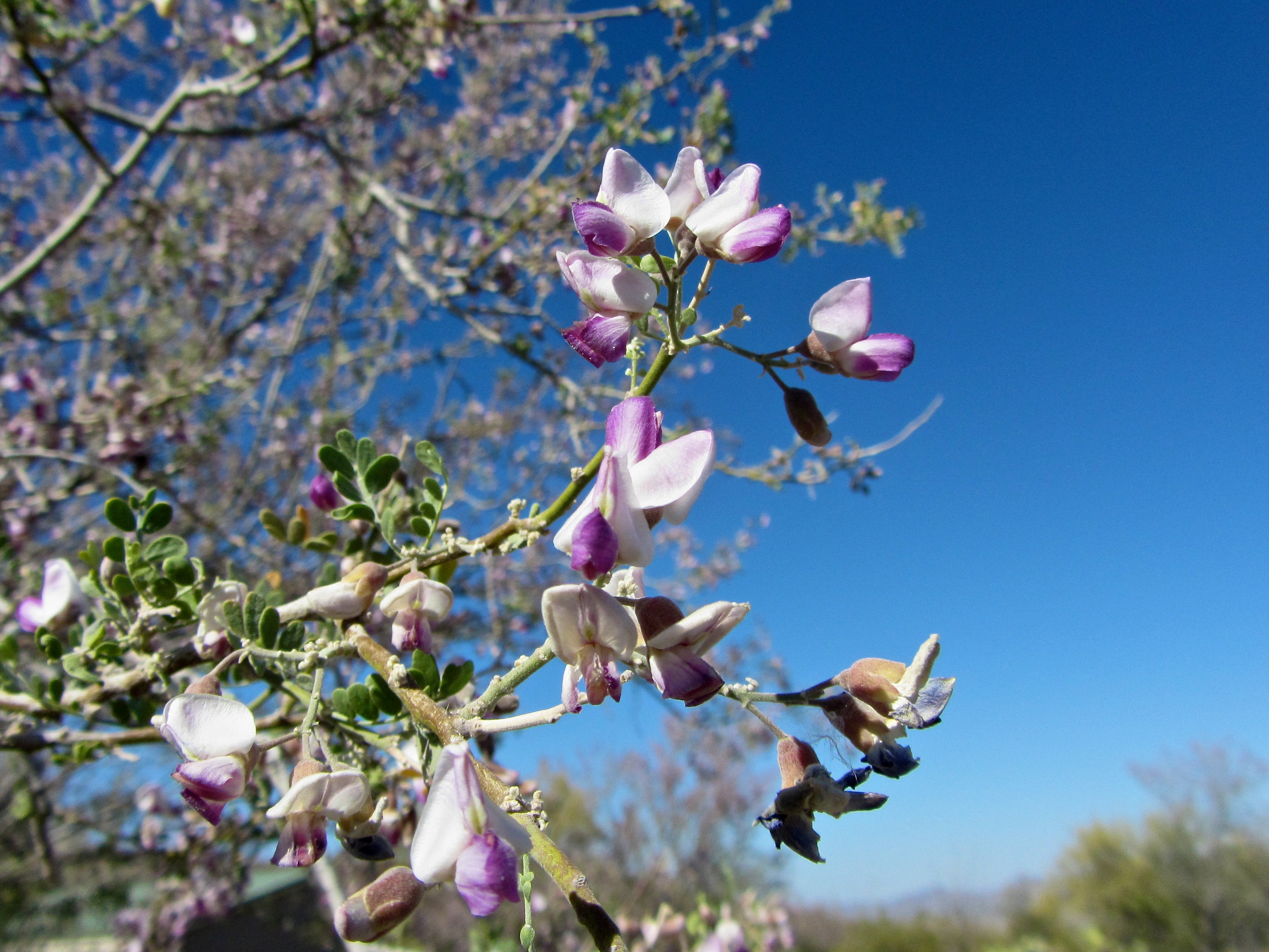 Olneya tesota in flower, Old Tucson, Arizona.